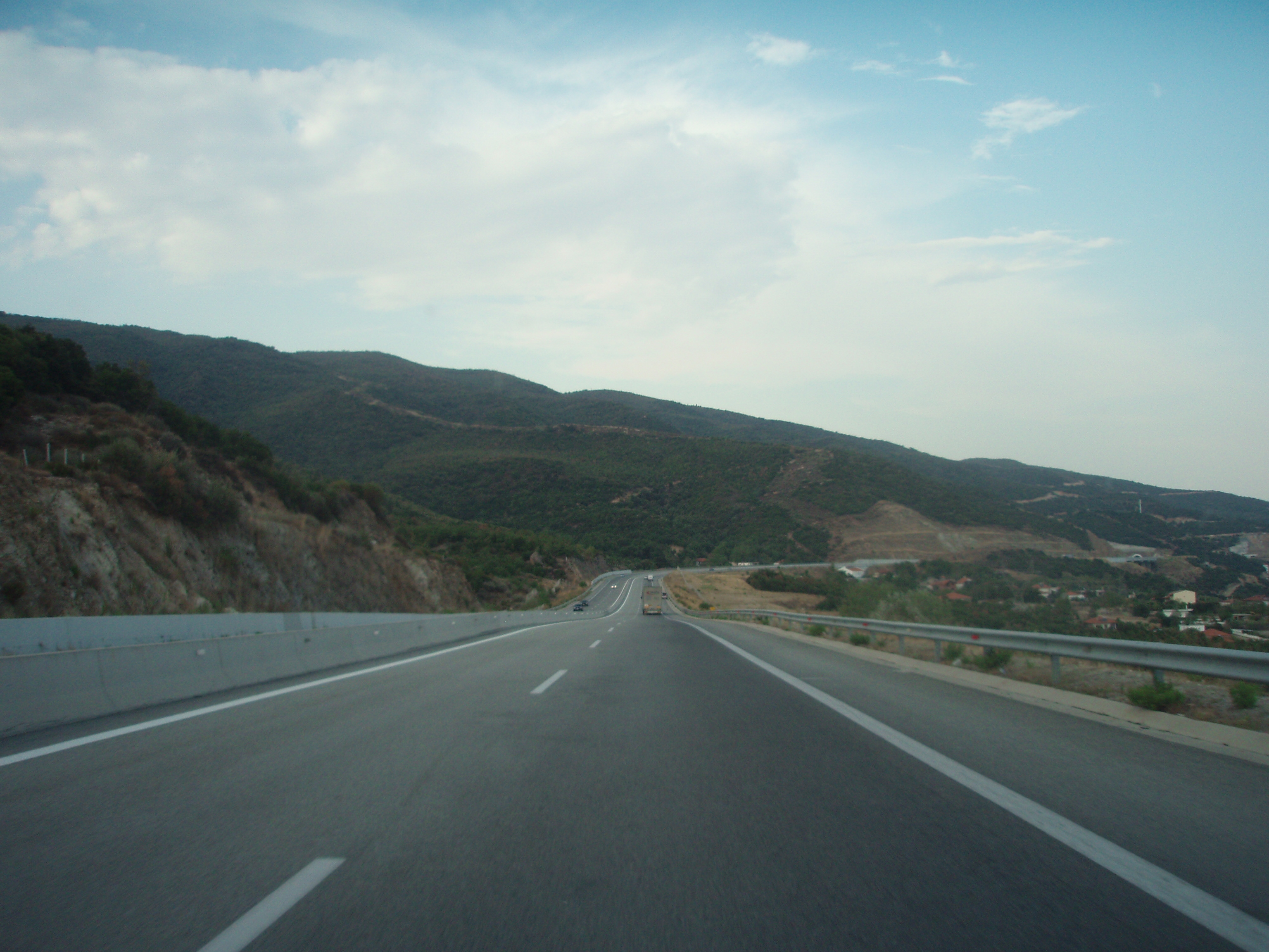 A2 motorway (Egnatia Odos) in Greece, section Asprovalta-Strymonas.